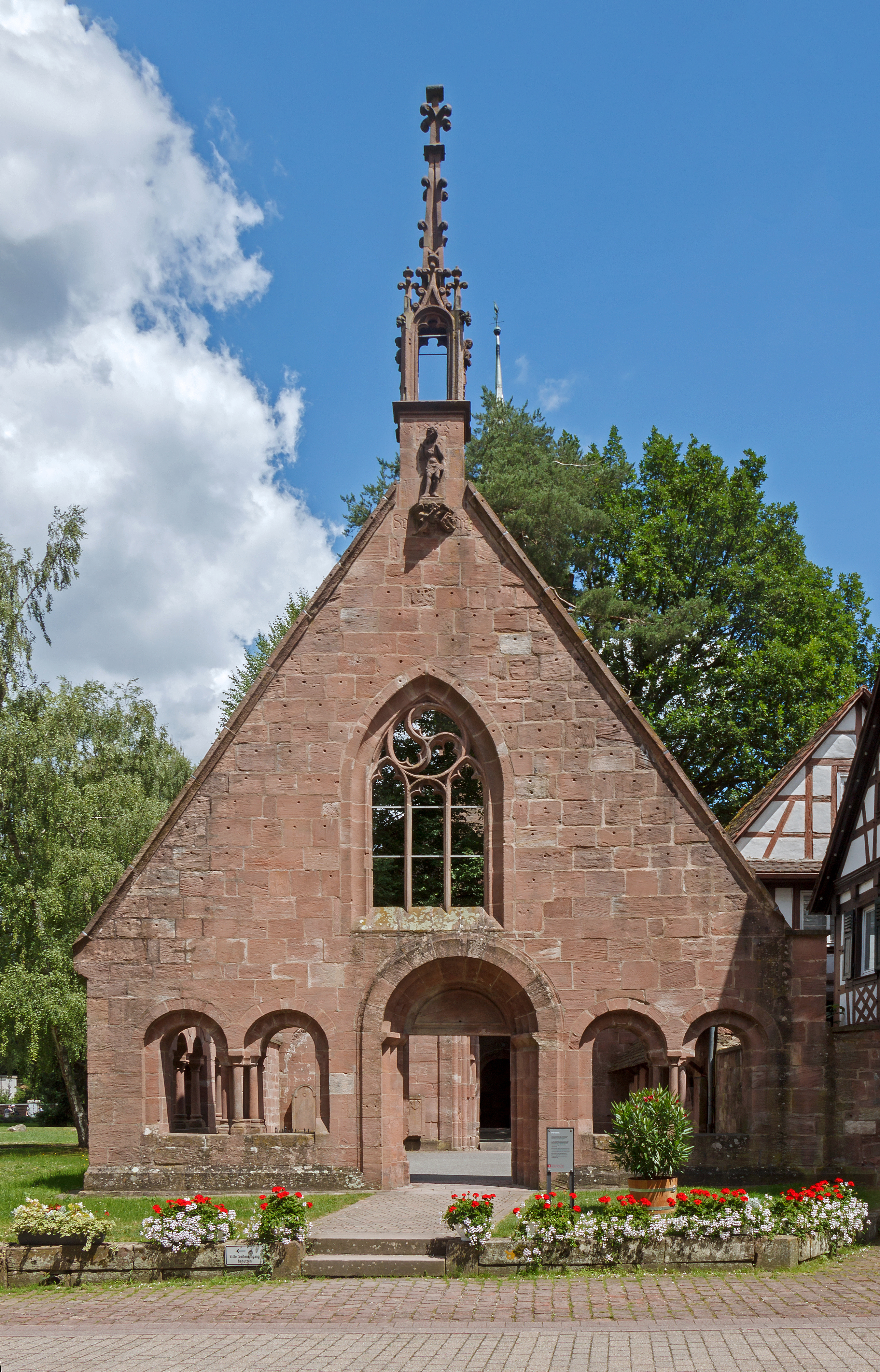 Remainings of the paradise (entrance hall) of the Herrenalb Abbey, Bad Herrenalb, Baden-Württemberg, Germany